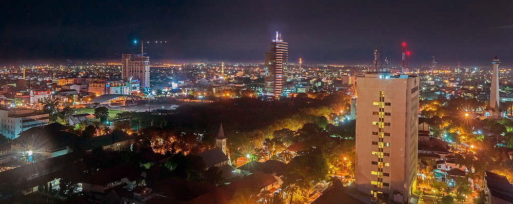 Makassar CBD Skyline Night Capture from Aston Hotel, Makassar